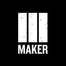 This is a logo owned by Maker Studios, Inc.